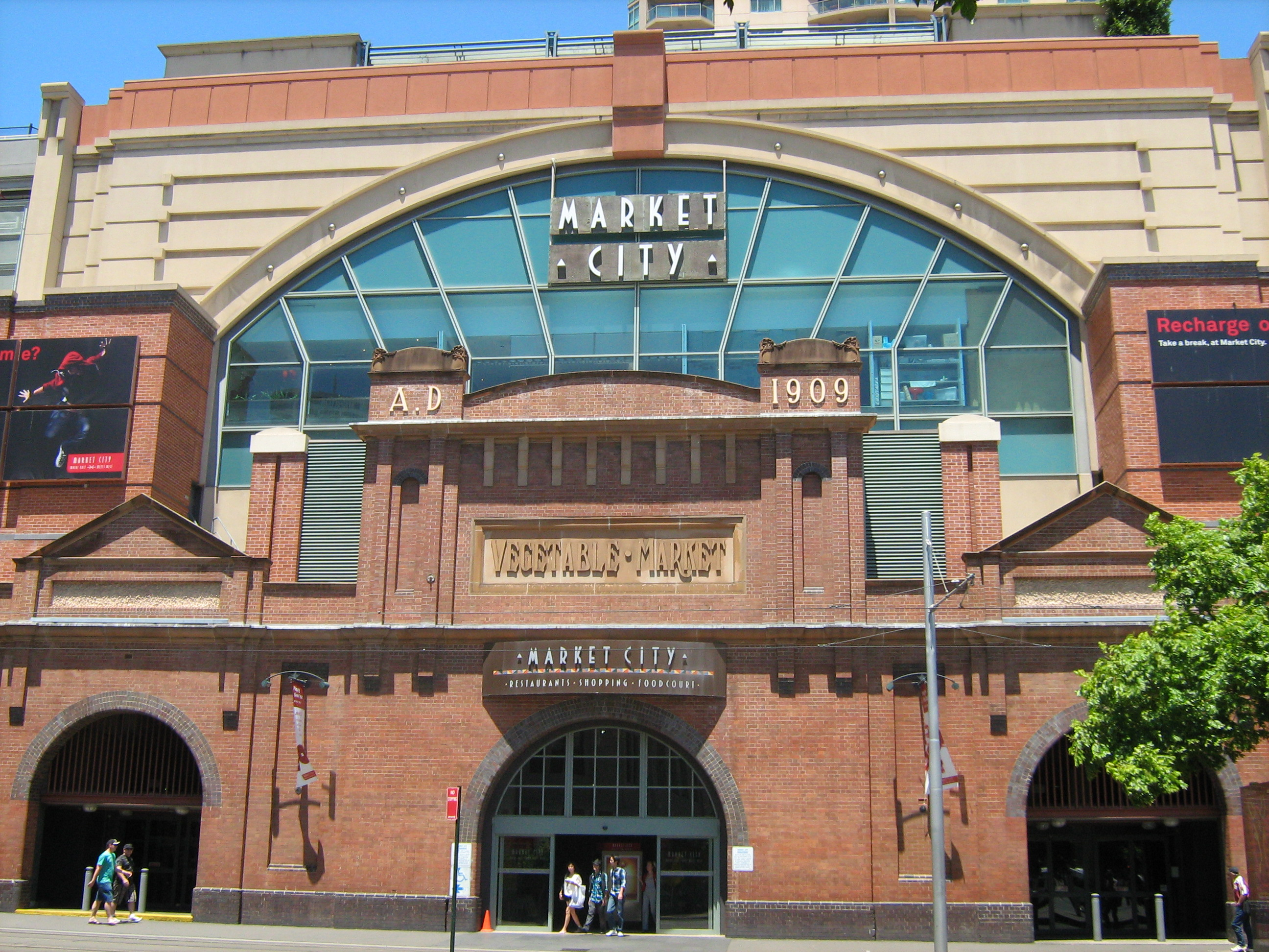 Market City entrance, Haymarket, New South Wales